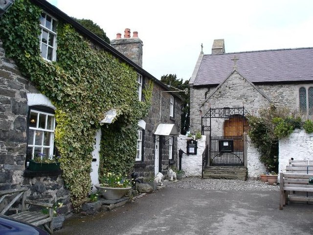 Llanelian yn Rhos church. The village church with the White Lion pub to the left